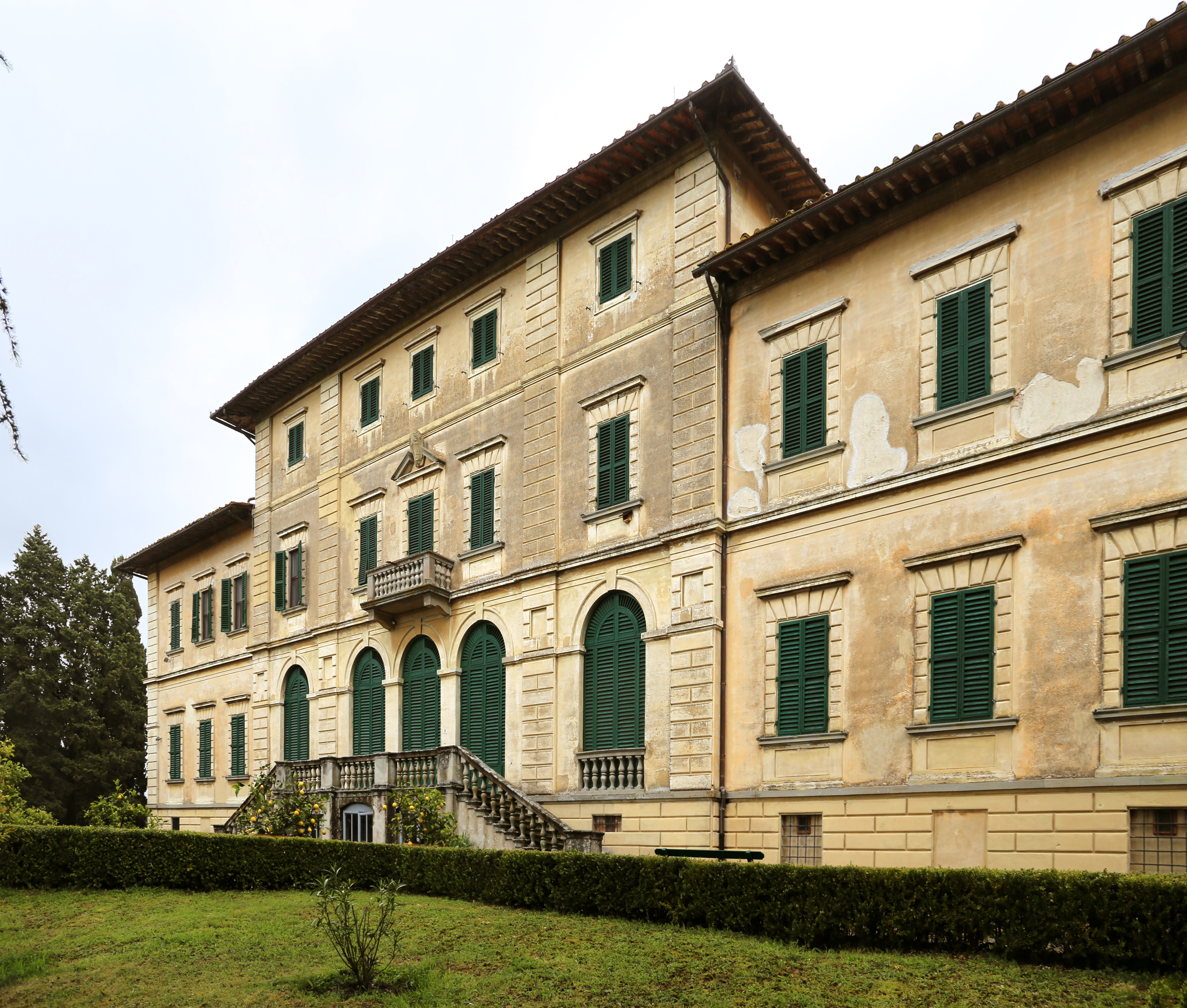 Villa Bossi (Pontassieve)